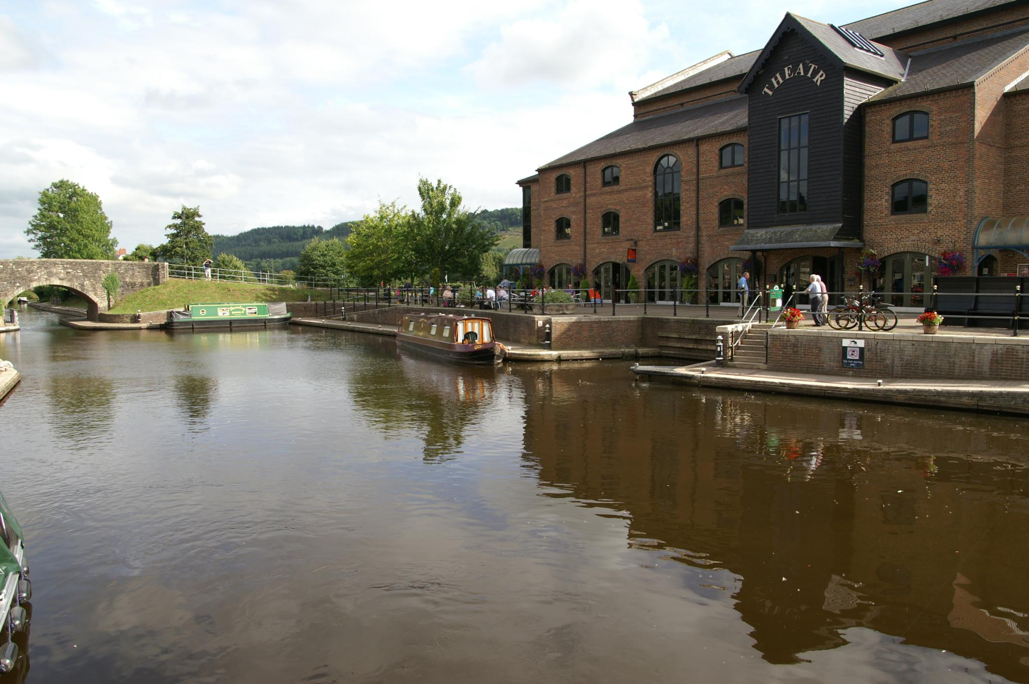 Brecon and Monmouth Canal and the Theatre